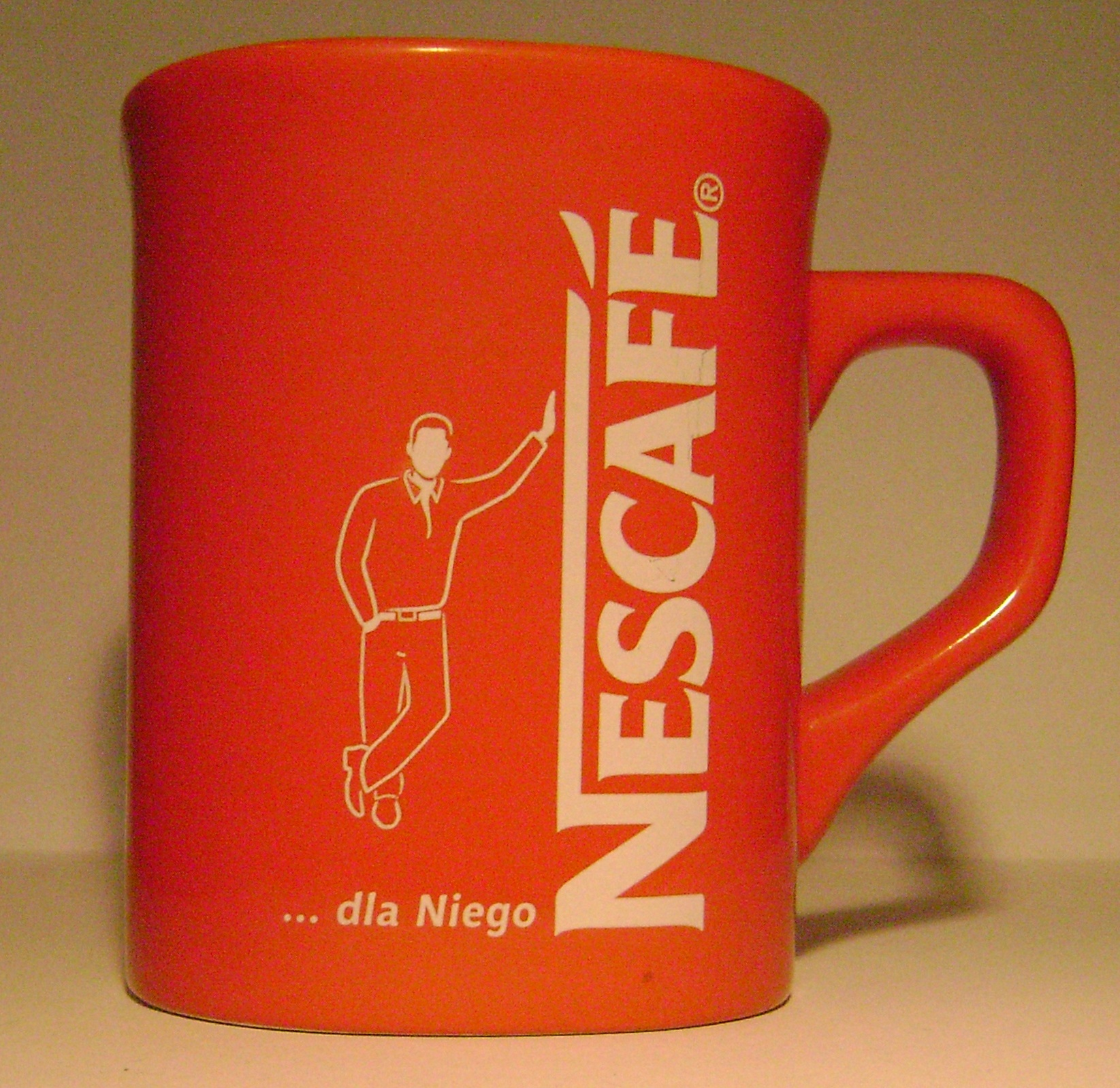 Cup, Nescafé - "For men"